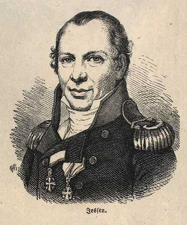 Carl Wilhelm Jessen (1764-1823), Danish naval officer